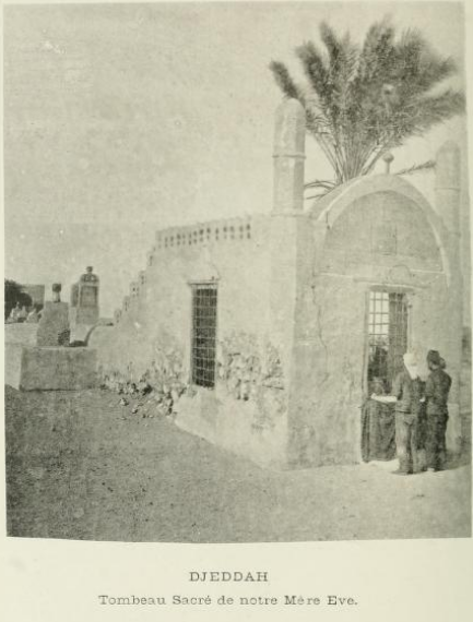 Tomb of Eve, photograph found in Pélerinage á la Mecque et á Medine by Saleh Soubhi, Cairo 1894, p 56-57